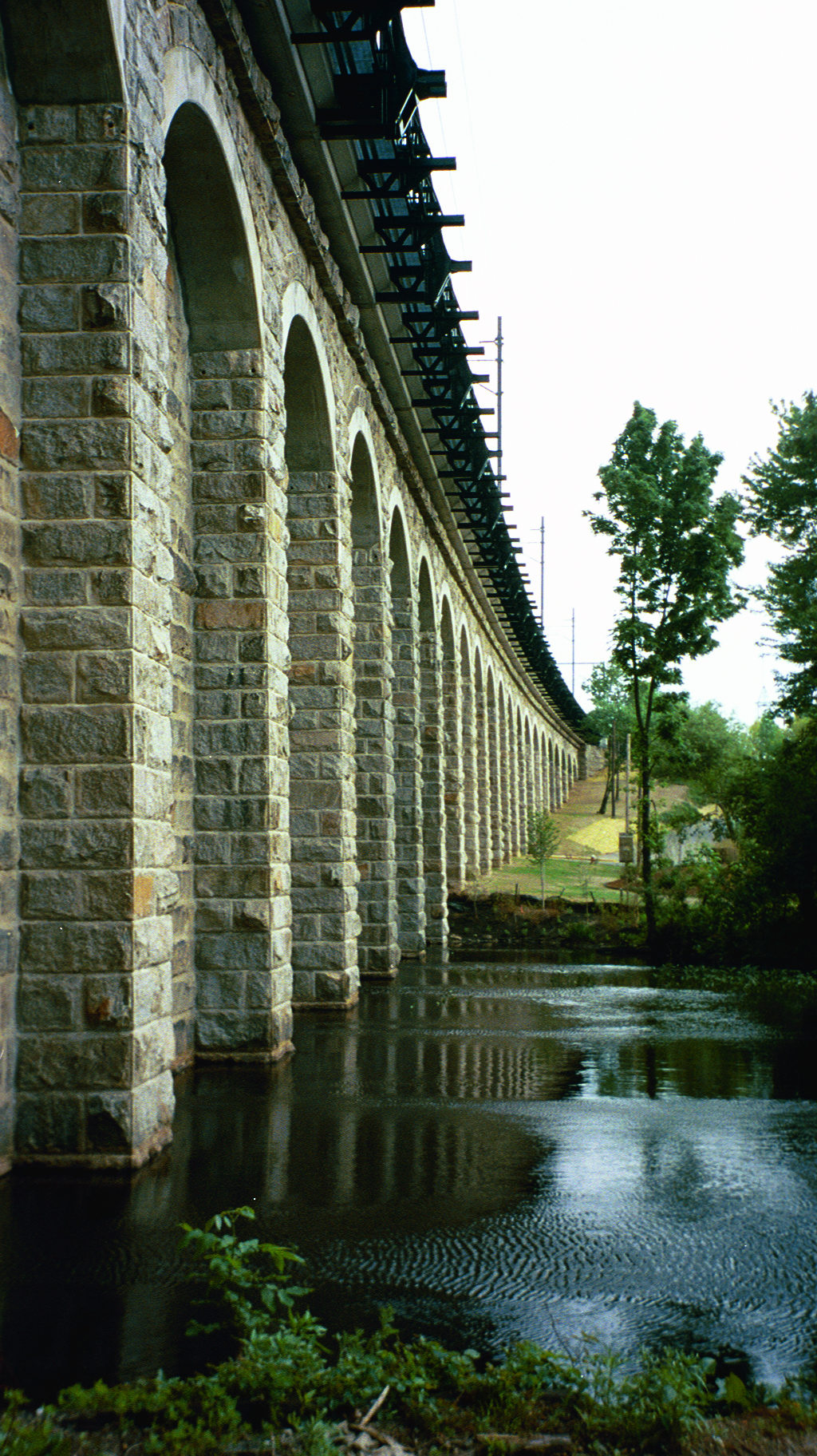 Canton Viaduct, Southern view, west side